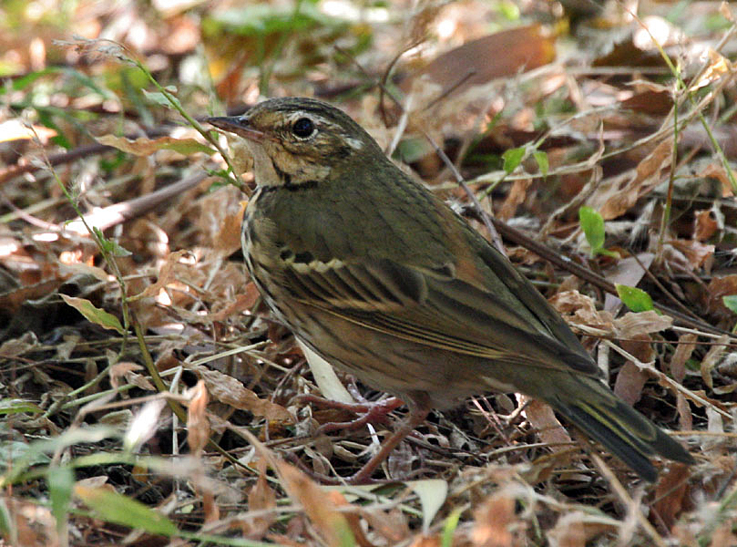 Olive-backed Pipit Anthus hodgsoni at Bracebridge in Kolkata, West Bengal, India.